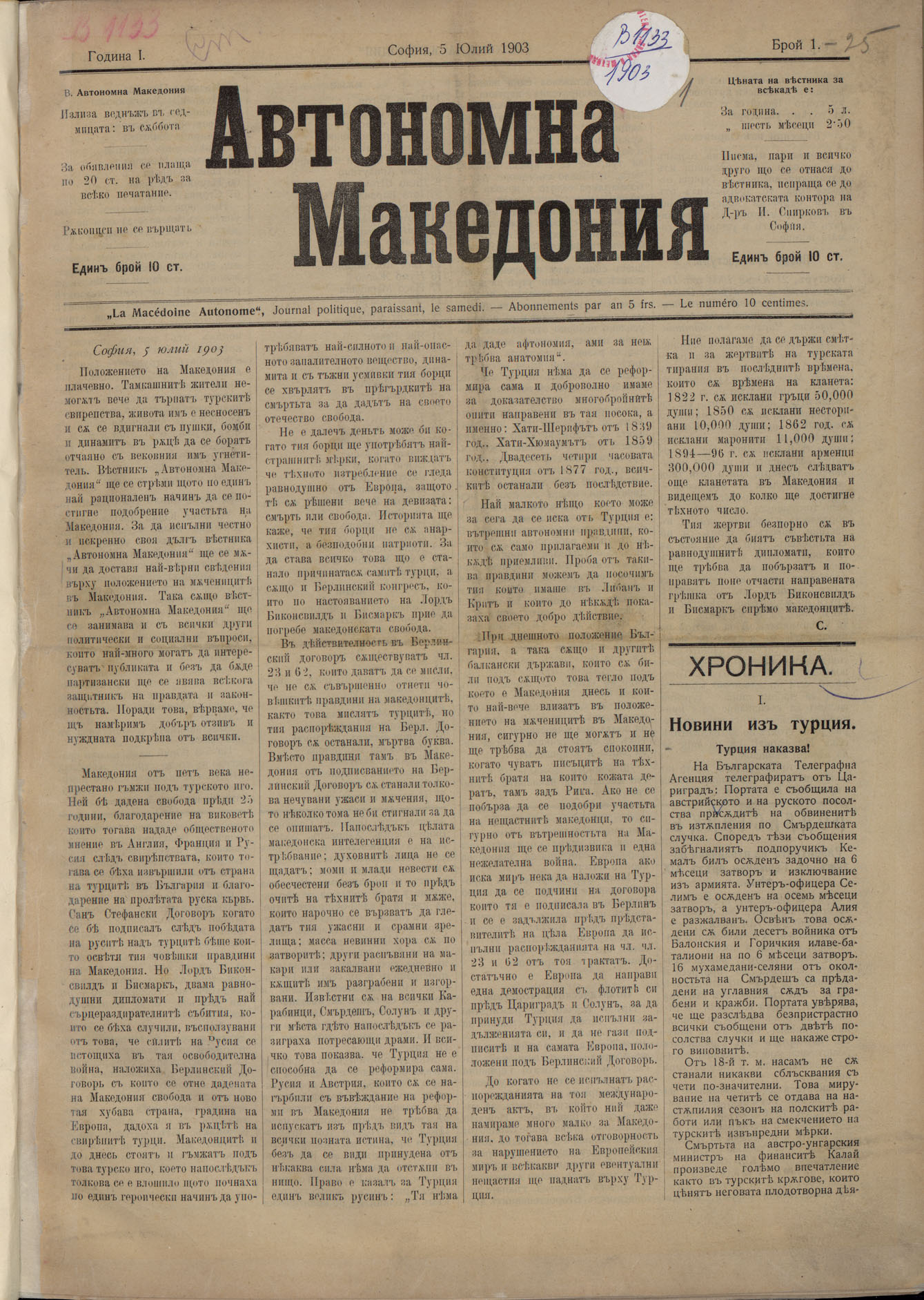 Page from SMAC`s newspaper "Avtonomna Makedonia"